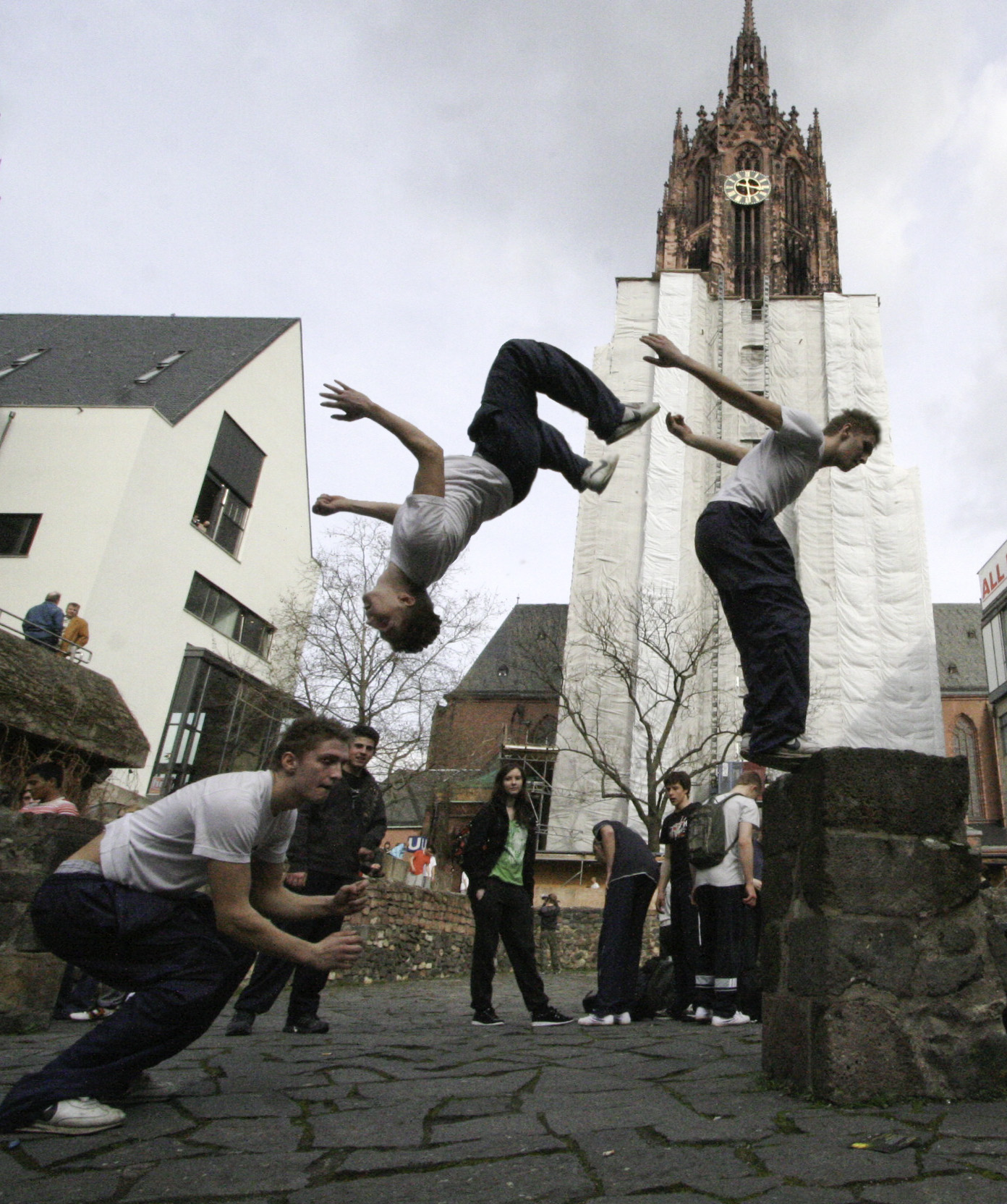 Free running in Frankfurt.